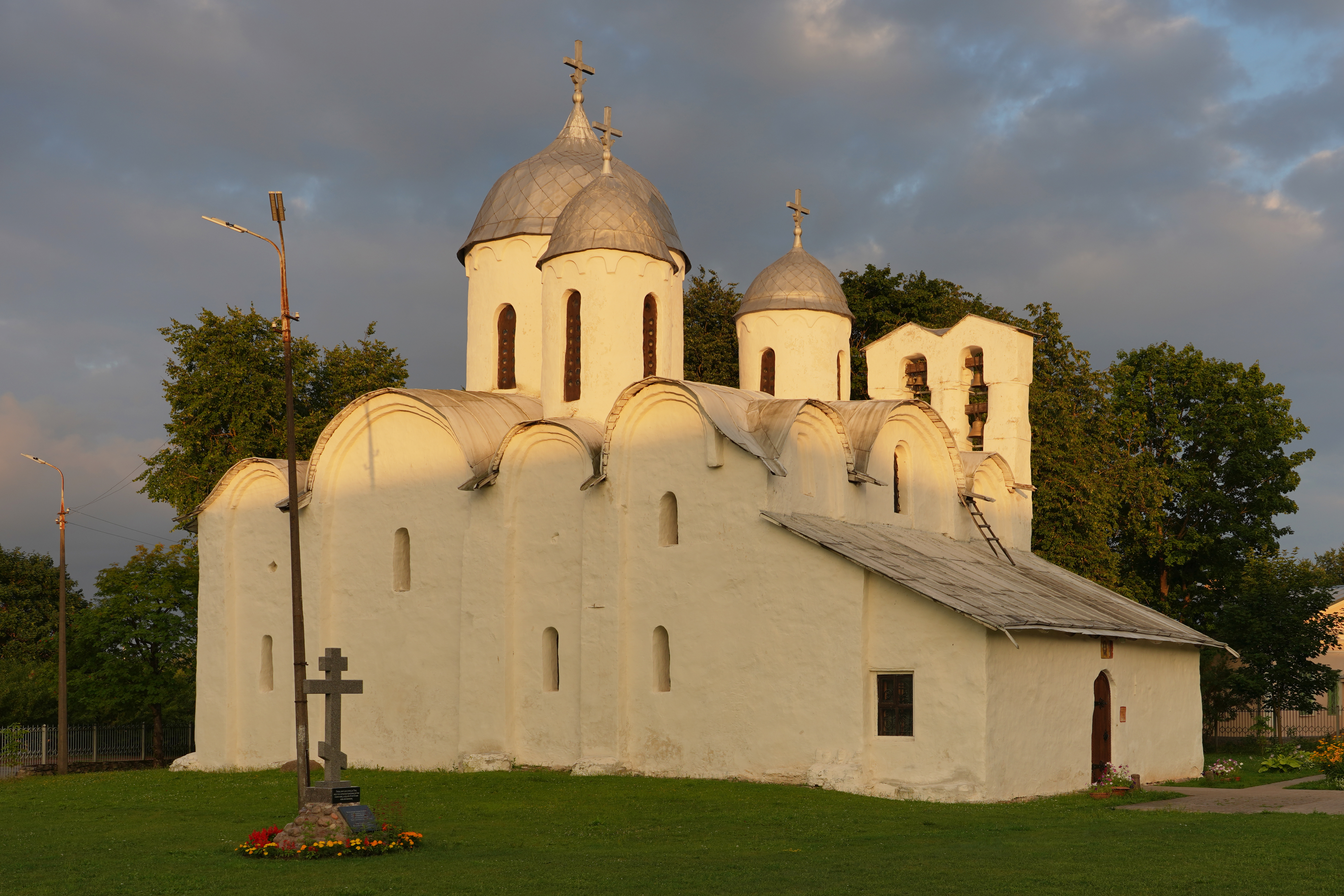 St. John the Baptist Church in Pskov, Russia